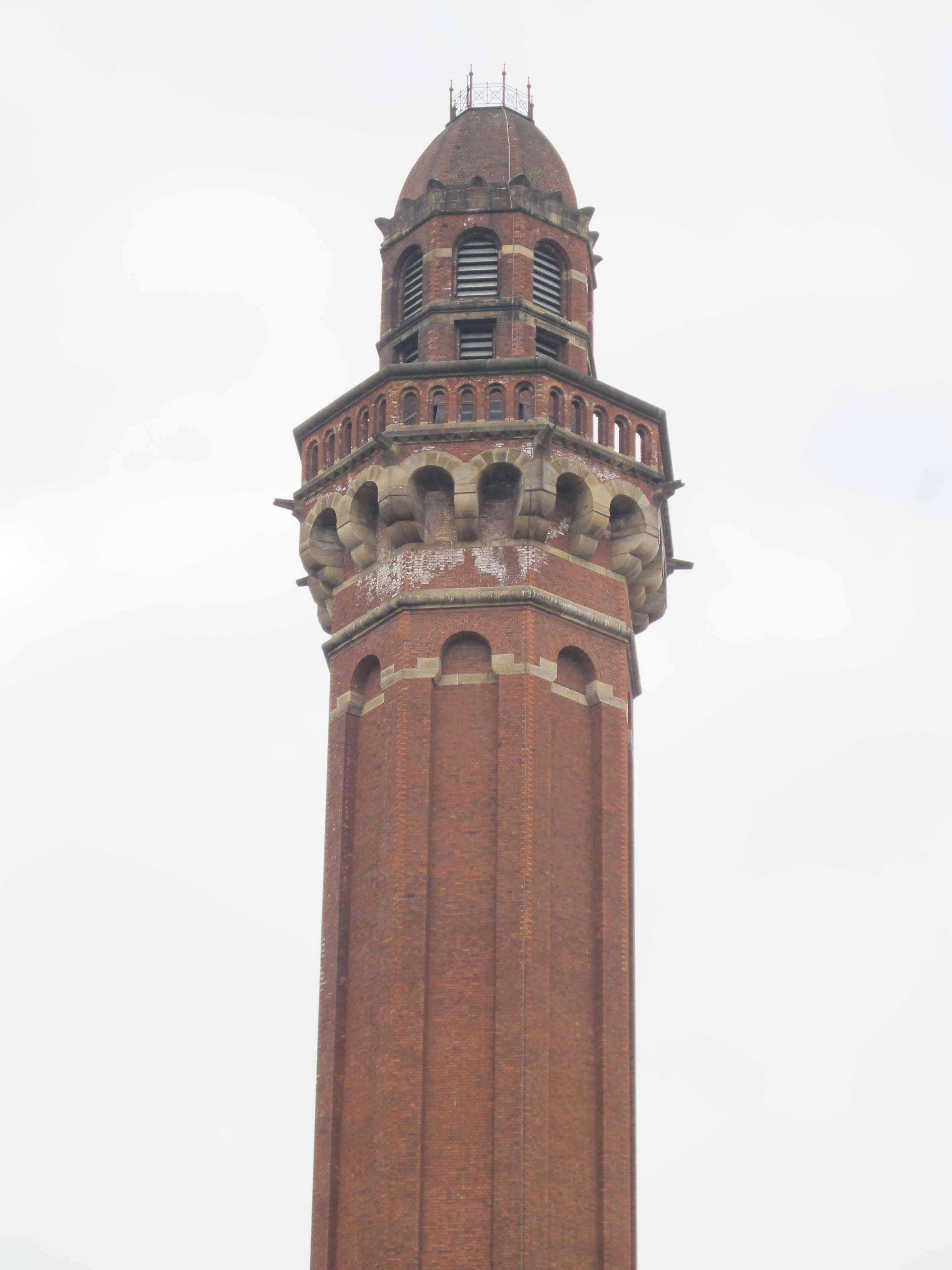 formerly known as strangeways